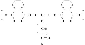 Example of an alkyd resin structure.